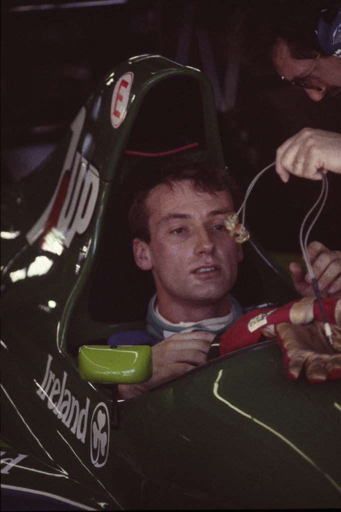 Bertrand Gachot sitting in the cockpit of his Jordan at the 1991 United States Grand Prix